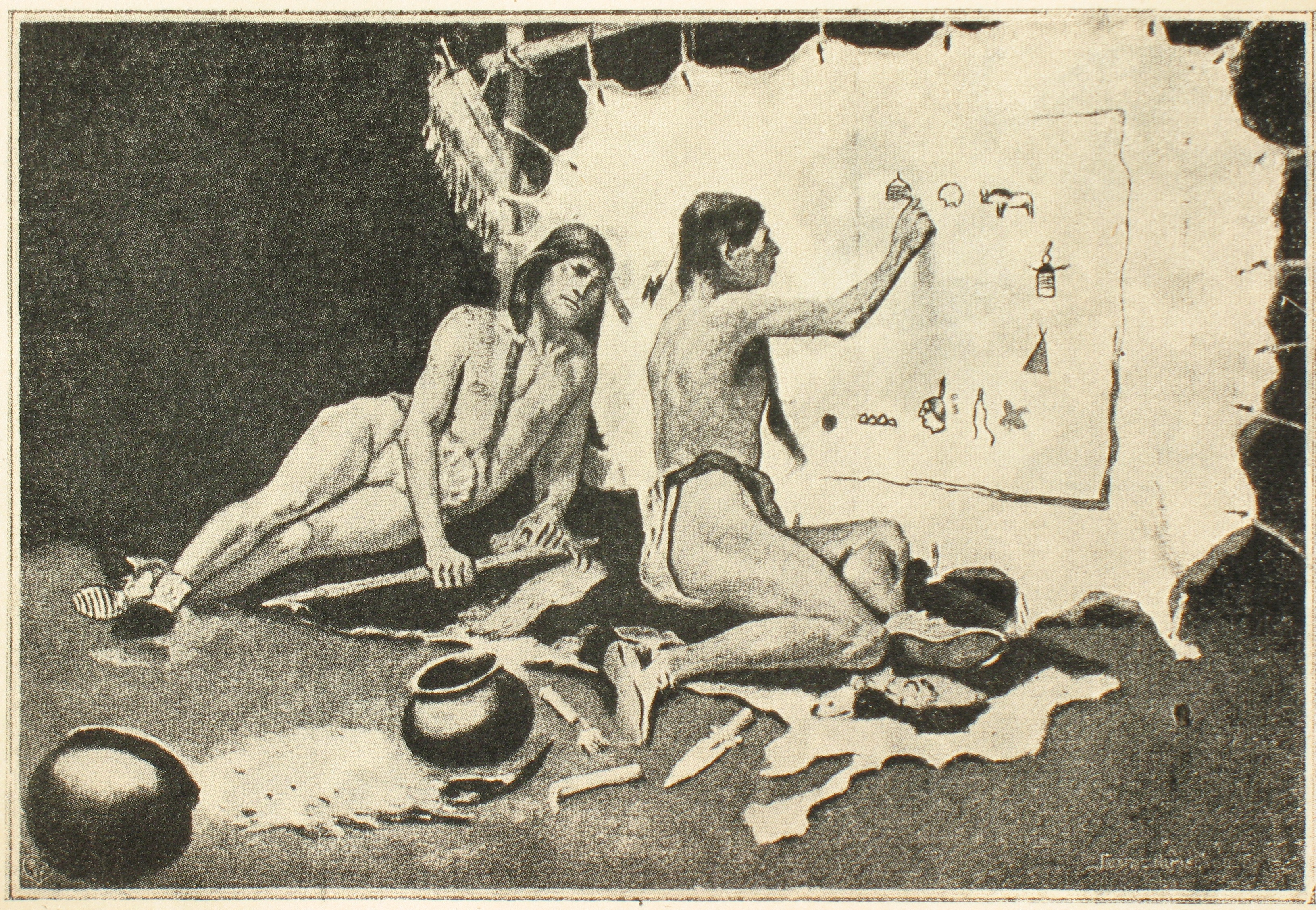 Henry Wadsworth Longfellow, The Song of Hiawatha, Moscow, 1931. Published by OGIZ.